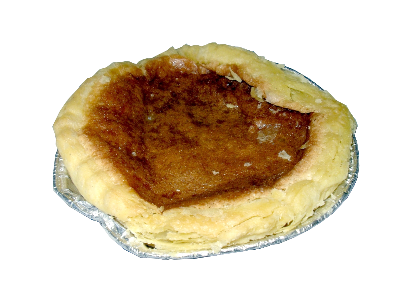 A Bakewell pudding, purchased in Bakewell.